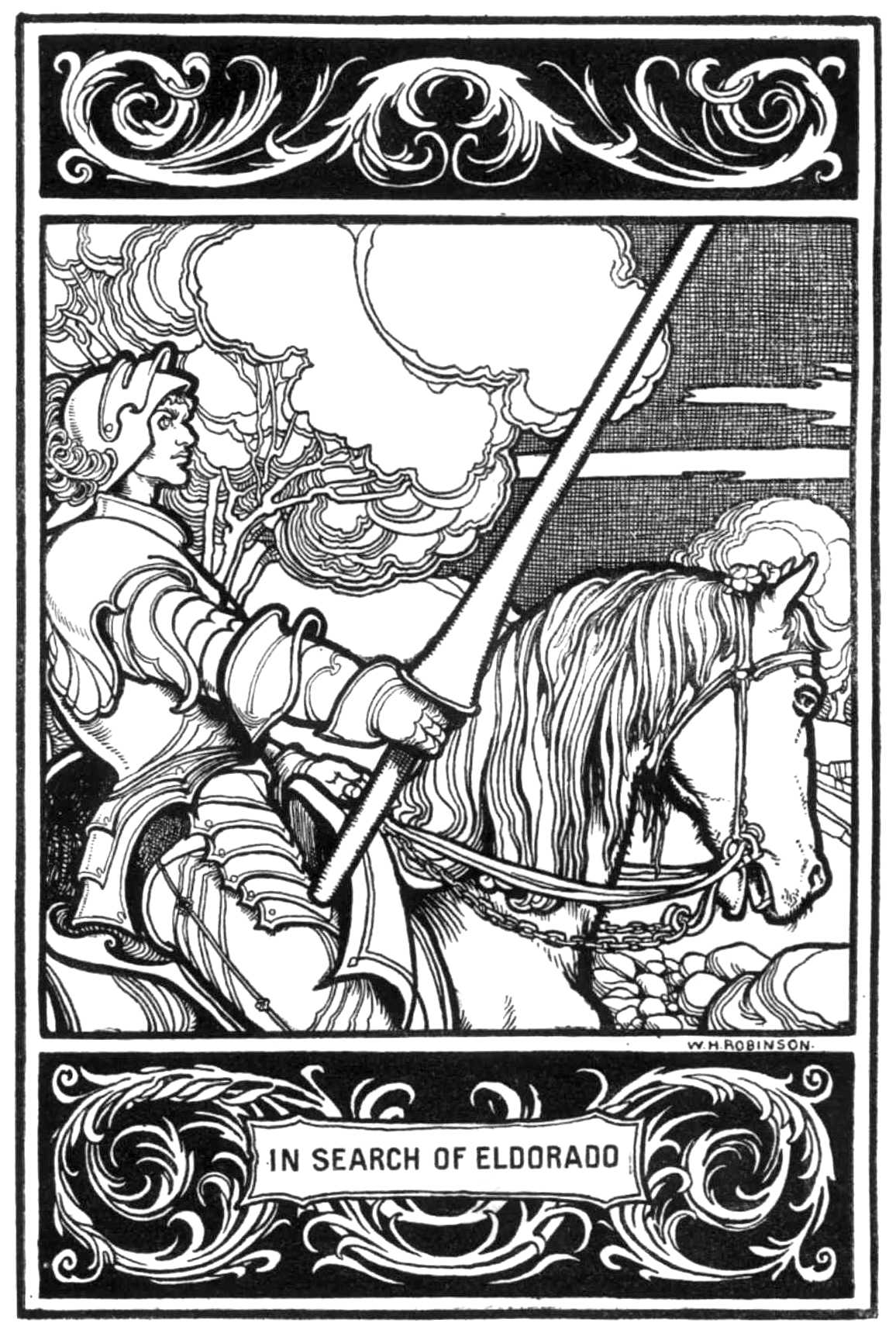 An illustration for the Poem 'Eldorado' ('Gaily bedight...') of Edgar Allan Poe